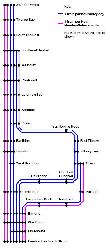 Off-peak hourly c2c service map